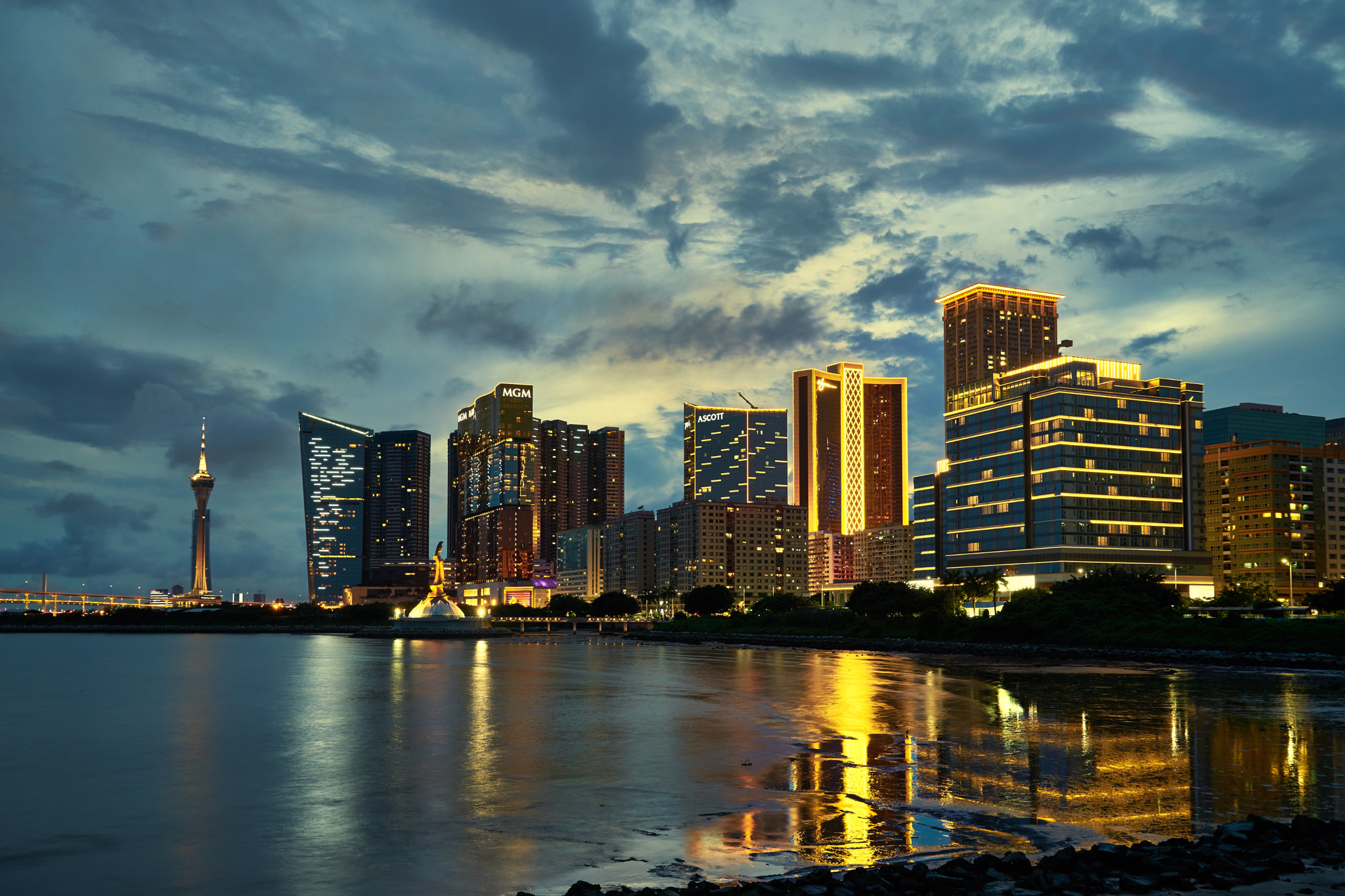 500px provided description: Macau Skyline [#sky ,#city ,#sunset ,#street ,#water ,#travel ,#blue ,#night ,#clouds ,#urban ,#architecture ,#cityscape ,#building ,#skyline ,#skyscraper ,#macau ,#macao ,#casino]